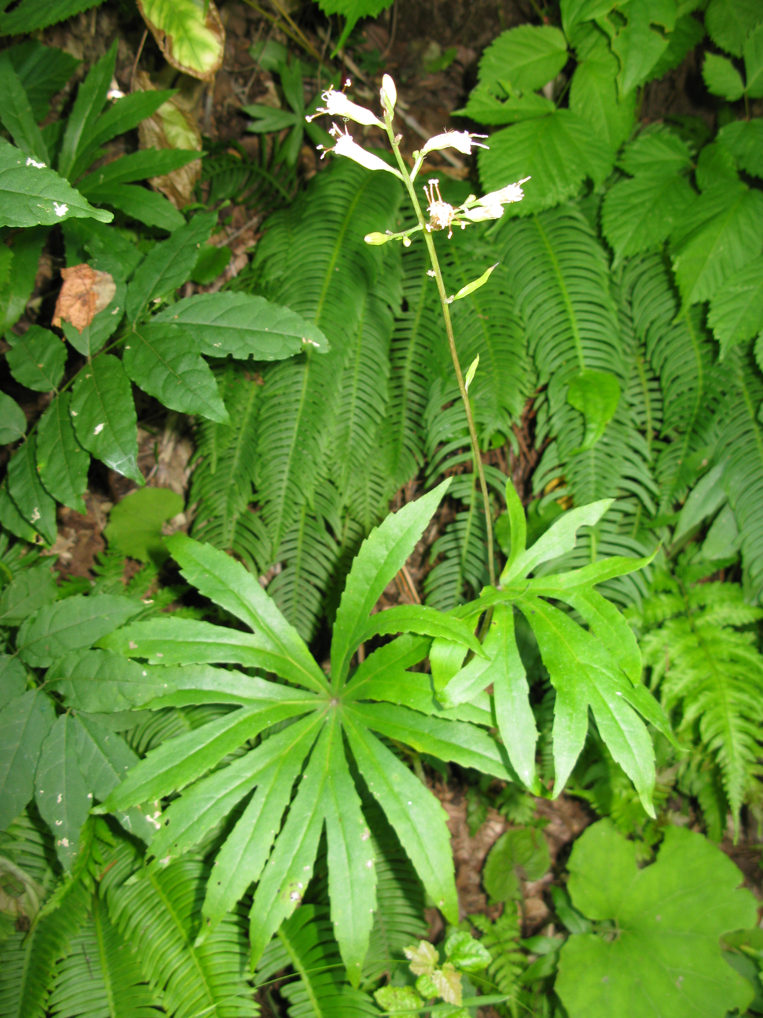 Syneilesis palmata, Aizu area, Fukushima pref., Japan